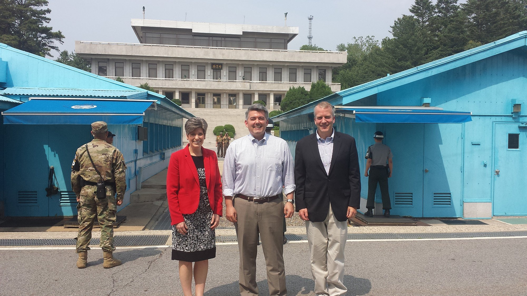 Joined @SenJoniErnst & @SenCoryGardner at Korea DMZ border; sobering reminder of threat posed by #NorthKorea.